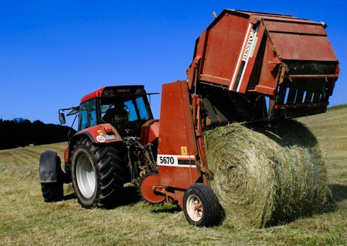 Case IH tractor with Hesston 5670 round baler in Herschweiler-Pettersheim, Germany